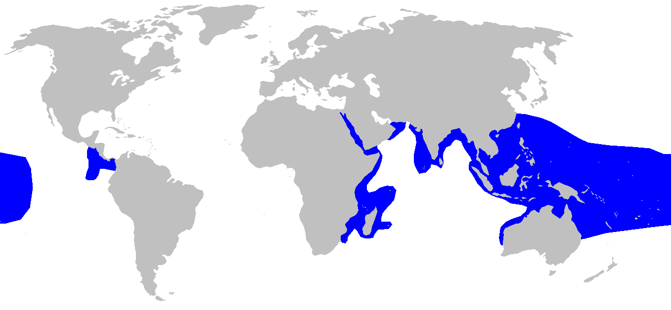 Distribution map for Triaenodon obesus